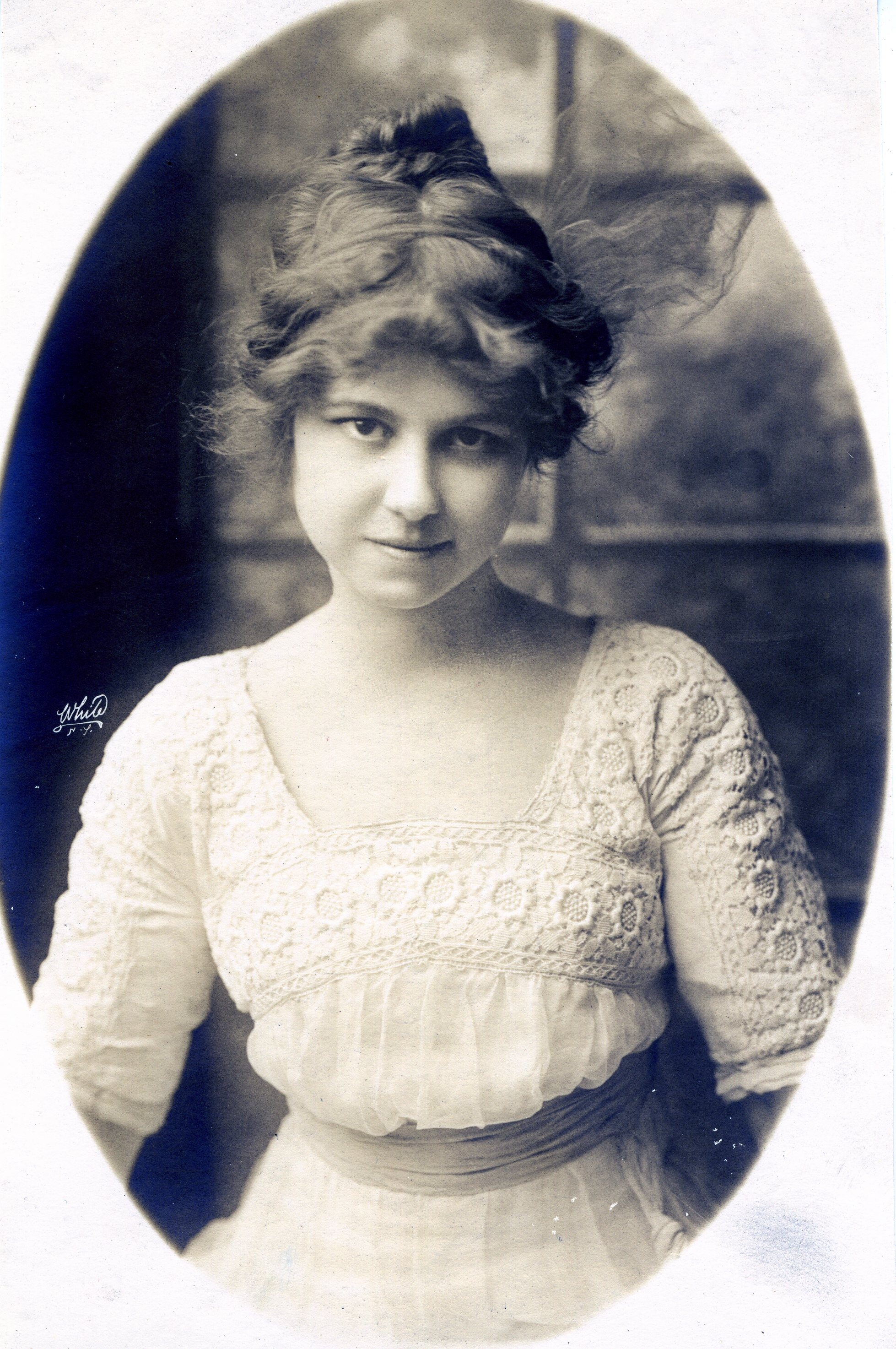 “Jean Marcet” (Anna Marcet Haldeman), ca. 1912. Scan from the family collection. (The dates on these were provided by Henry Haldeman – Marcet & Emanuel’s son and my grandfather – but I cannot vouch for their accuracy.) The original photo has the date written on the fron in pen. I've removed it here; an untouched scan is here.